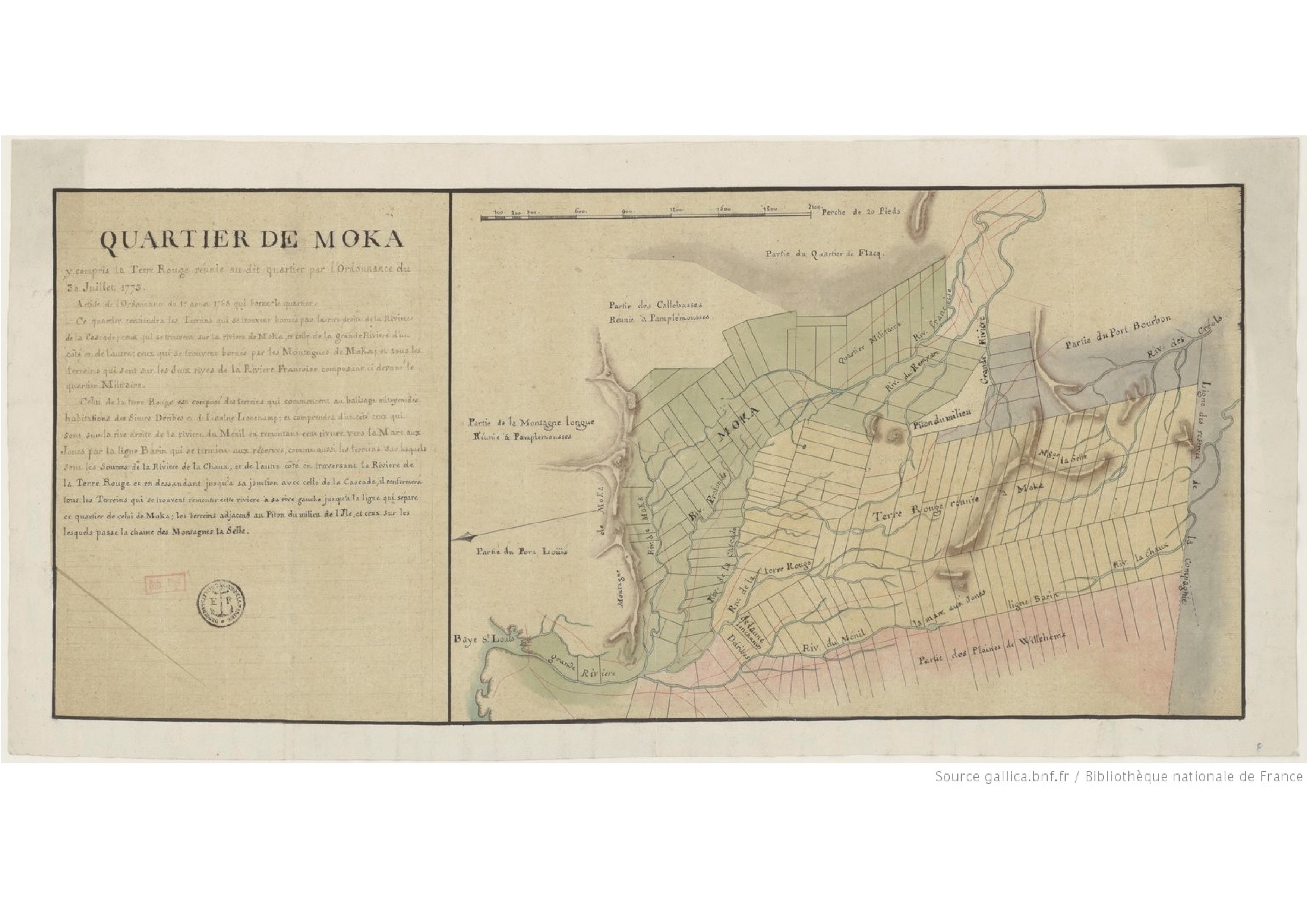 Carte du quartier de moka